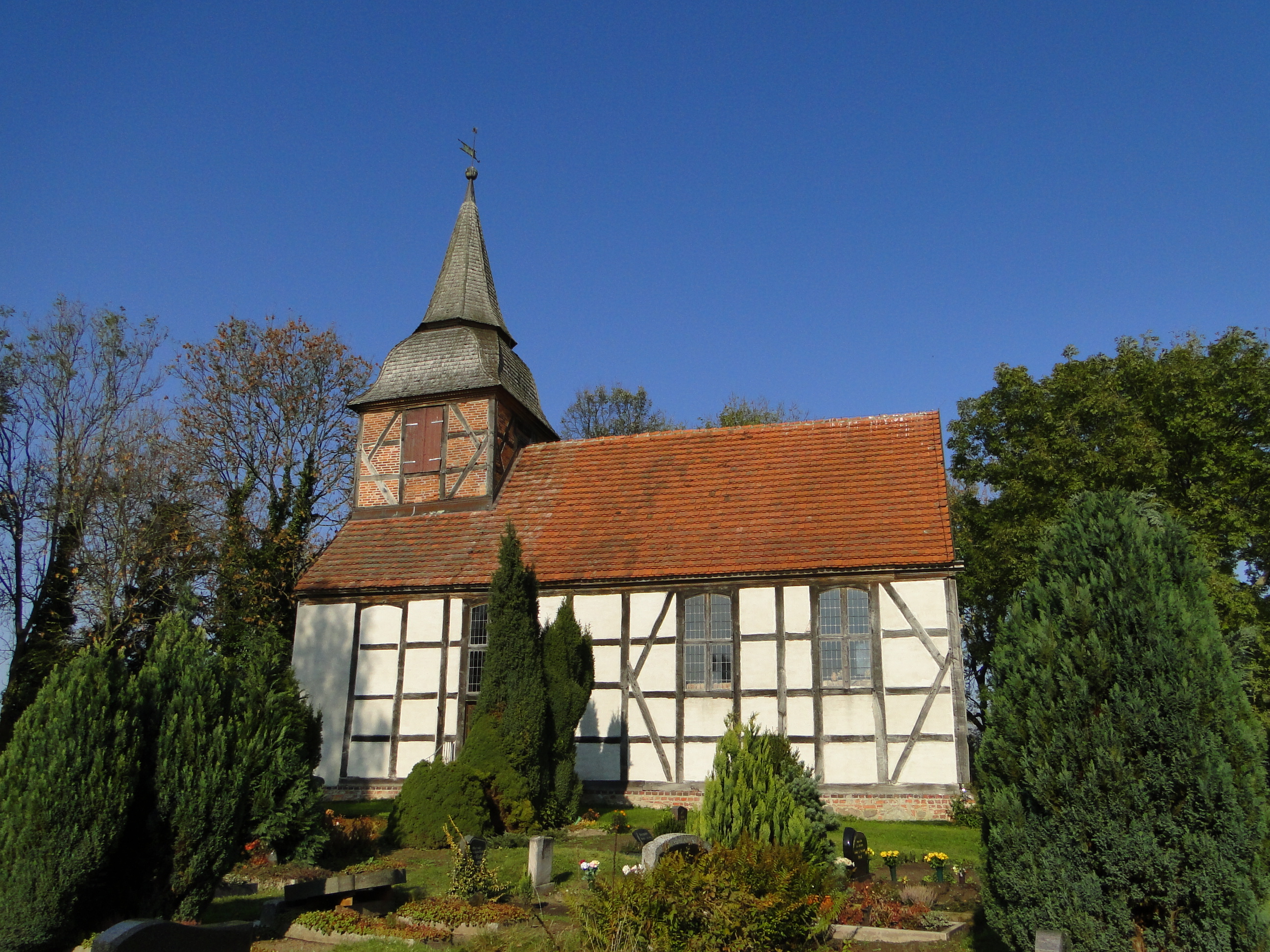 Church in Woggersin, district Mecklenburg-Strelitz, Mecklenburg-Vorpommern, Germany